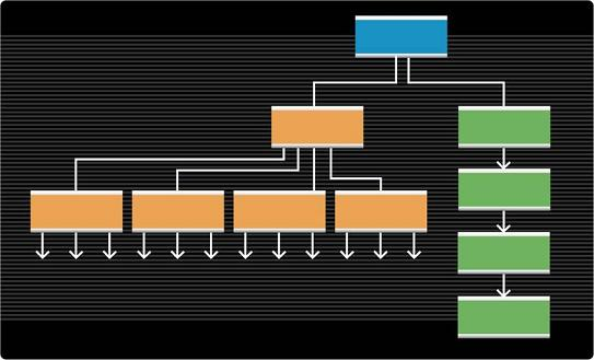 Possible topology at Ethernet POWERLINK